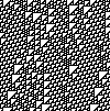 Rule 110 from random initial conditions